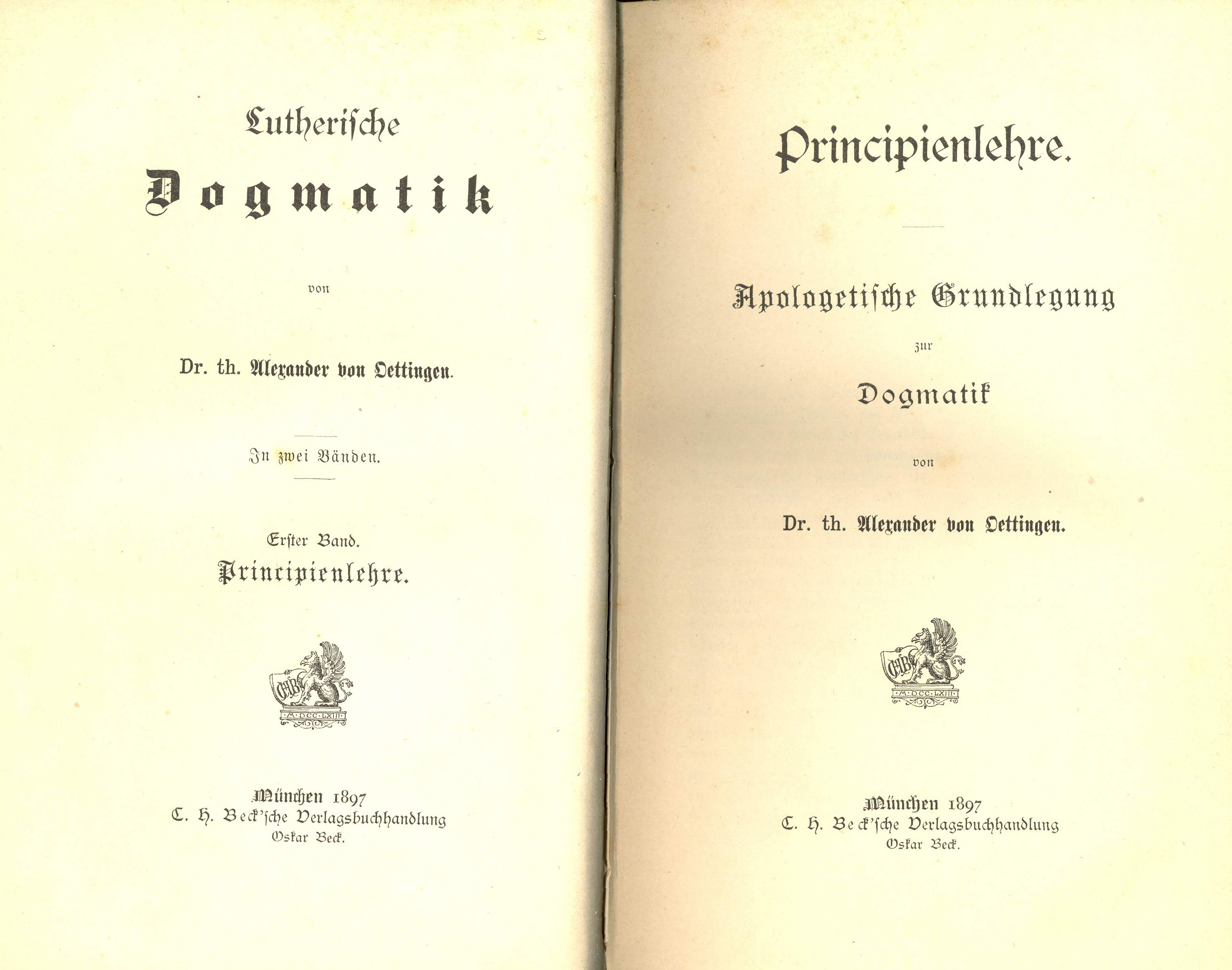 Cover page of Von Oettingen's first volume of Dogmatics